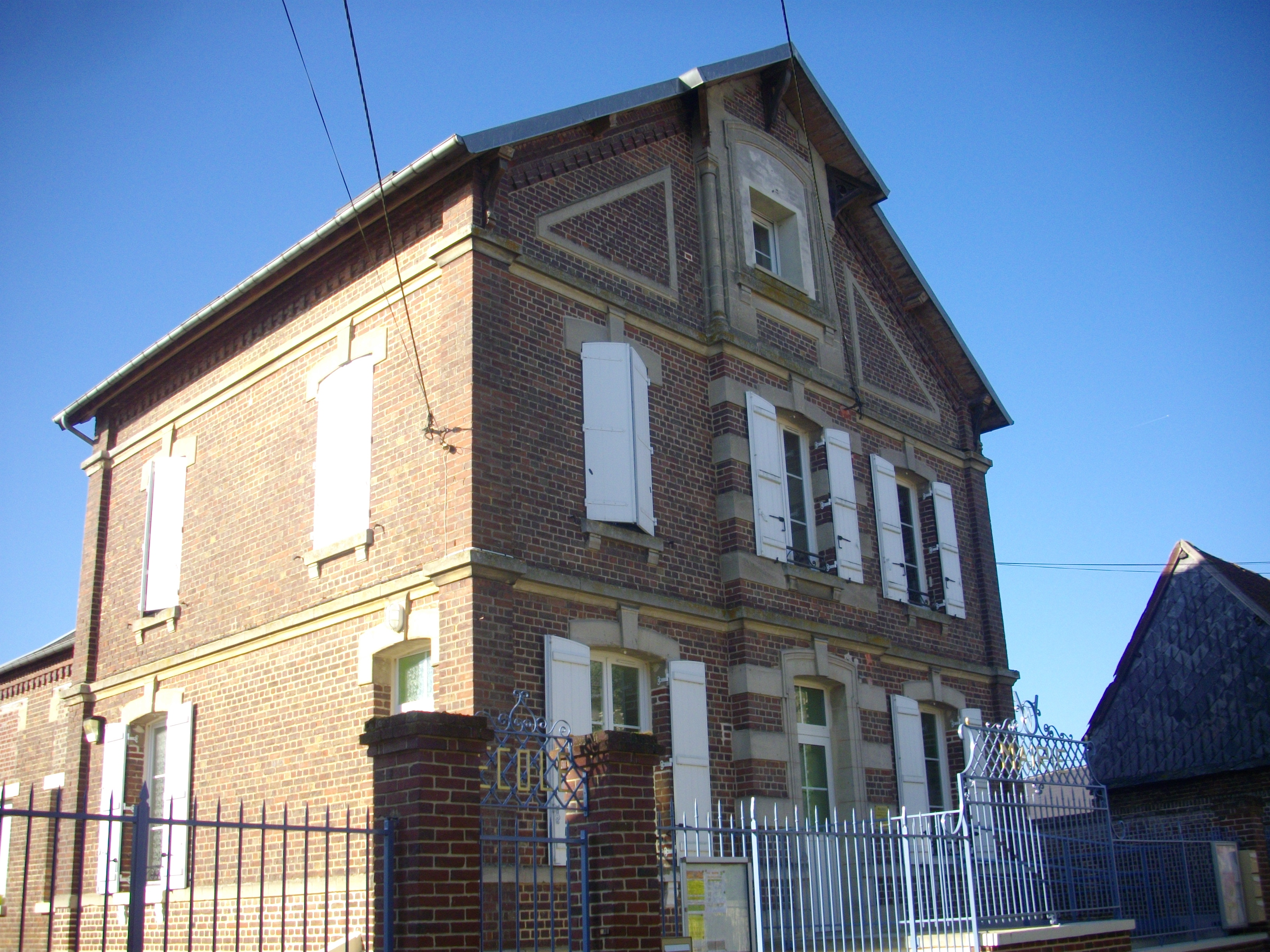 Town hall and school of Le Mesnil-sur-Bulles (Oise, France)